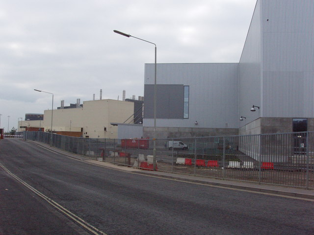 BMW Mini factory, view from road leading into the plant, which was a public bridleway until BMW closed it in 2007.